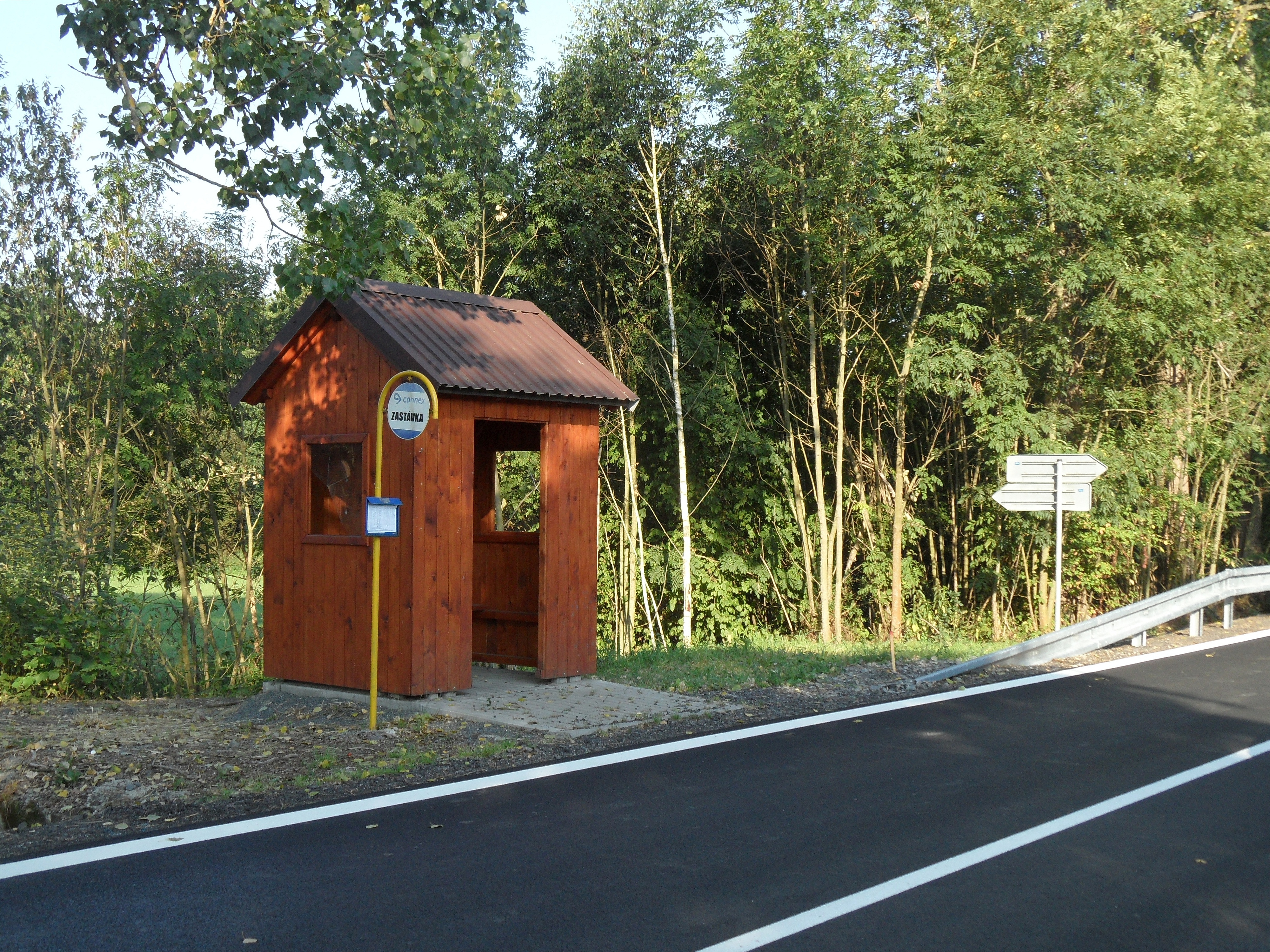 Přísečno (Uhelná Příbram) E. Bus Stop. Havlíčkův Brod District, the Czech Republic.